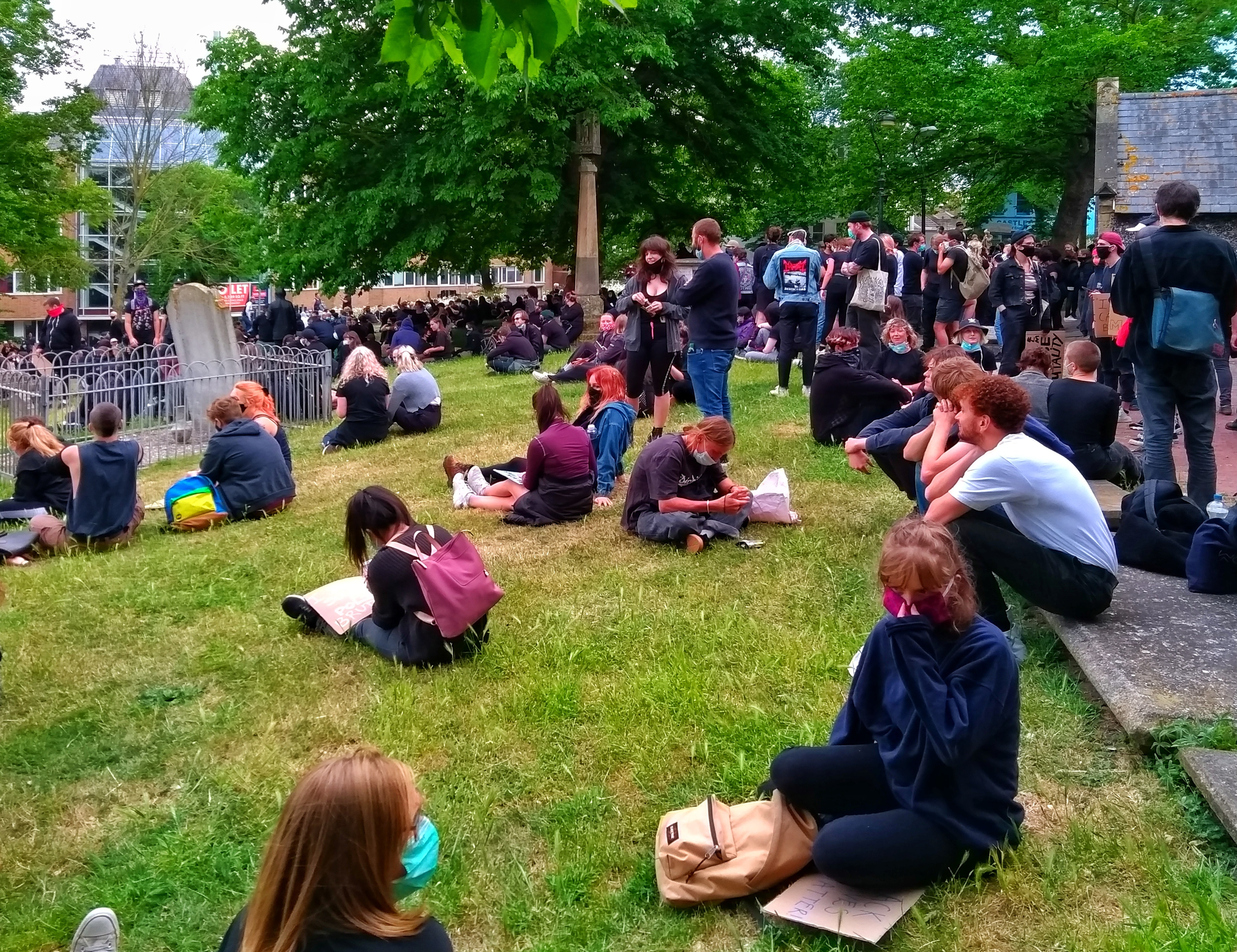 People congregating for the start of a Black Lives Matter march in the church yard at St Nicholas Church, Brighton - part of a global response to the death / killing of George Floyd. The gathering was not permitted under COVID-19 related social distancing rules / laws, but was tolerated by the large number of police located in nearby streets. #blacklivesmatter #demo #march